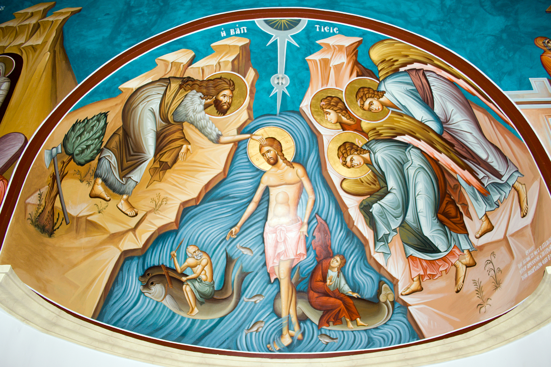 This mural, painted on the interior of the John the Baptist Church at the Jordan River, depicts Jesus' baptism by the hand of John.